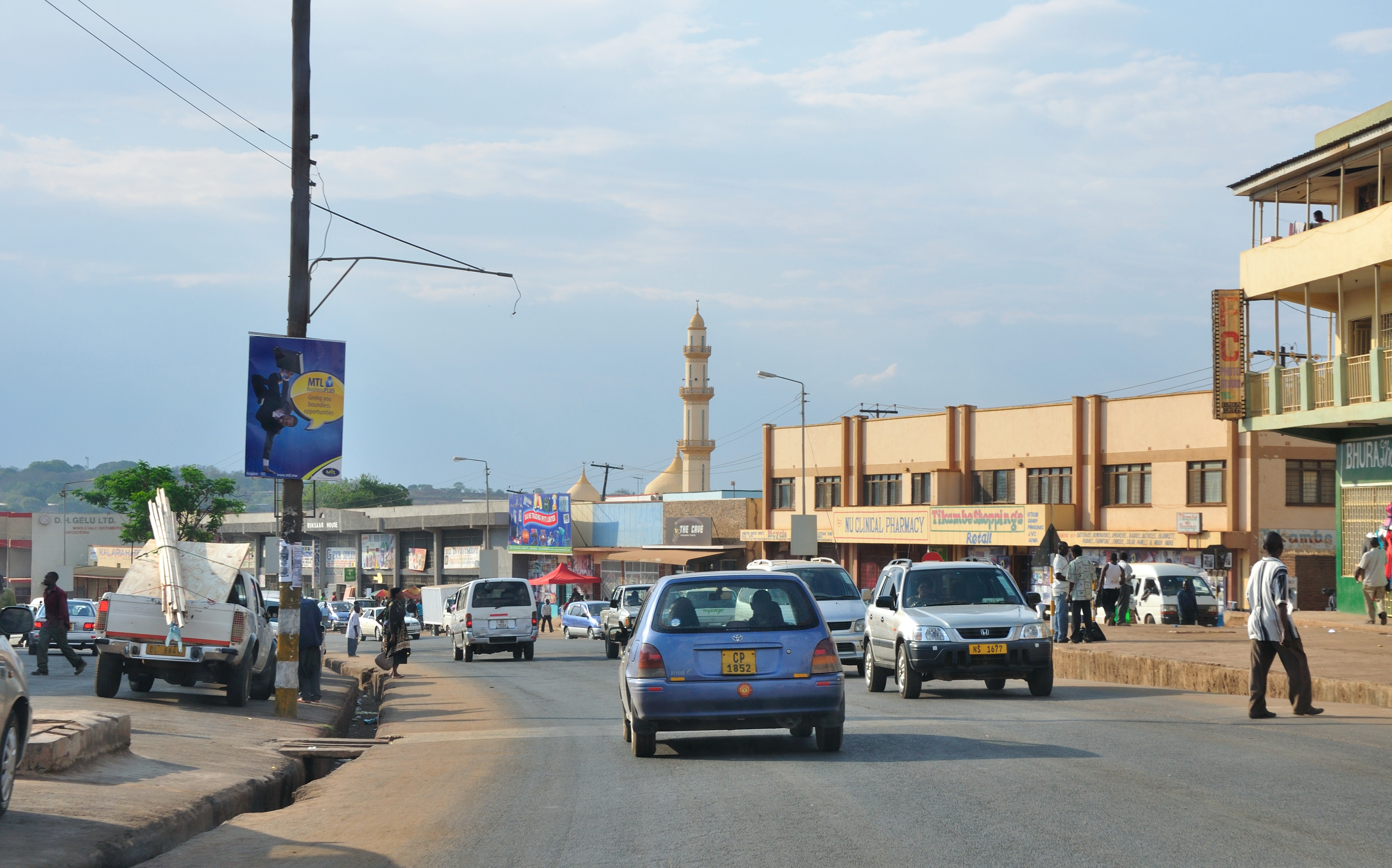 Malawi, road side impressions along the M1 between Blantyre and Lilongwe